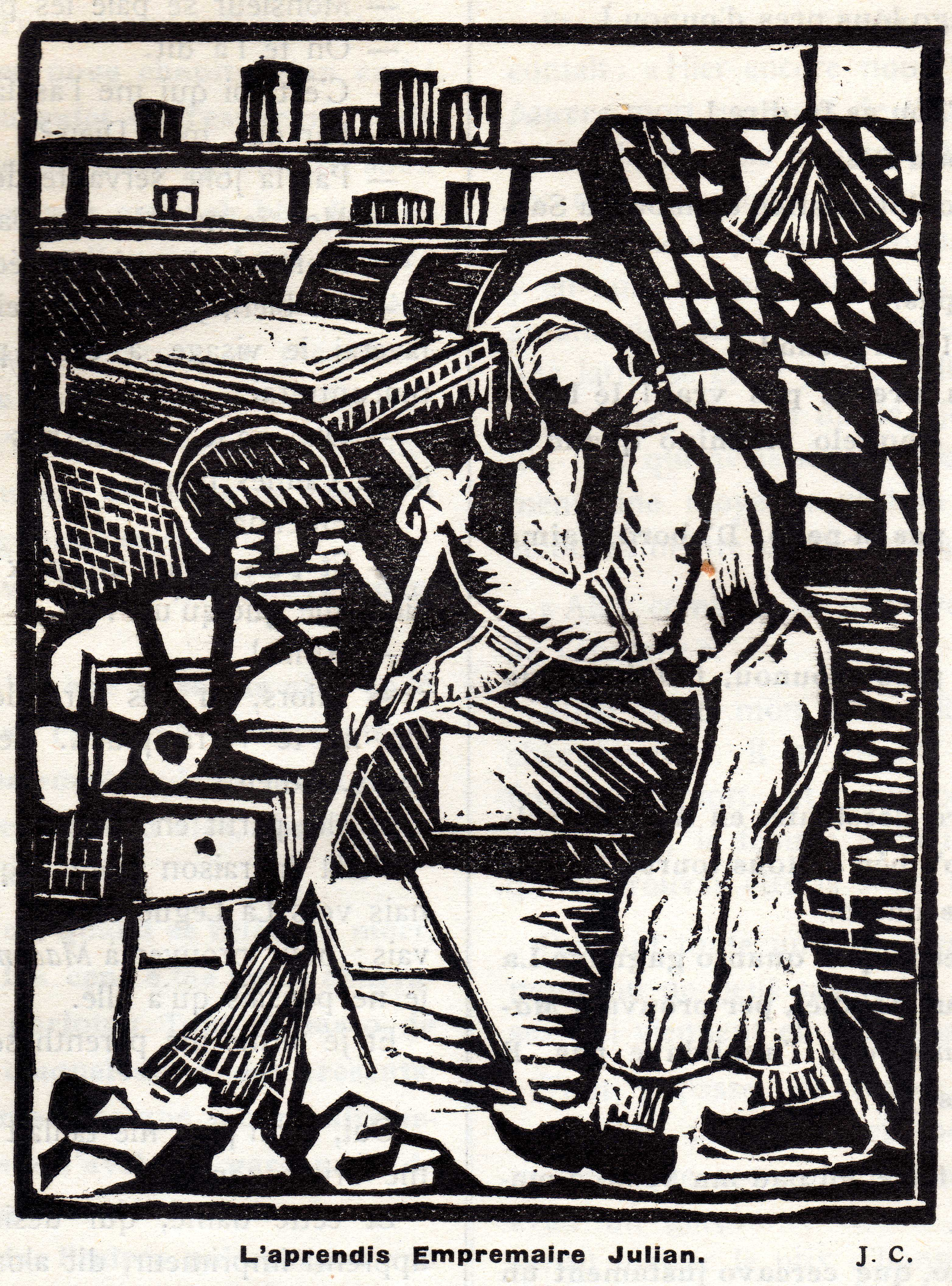 Drawing by Joan Castanha